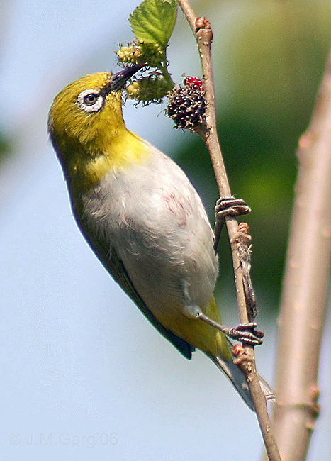 Oriental White-eye Zosterops palpebrosus in Kullu District of Himachal Pradesh, India.